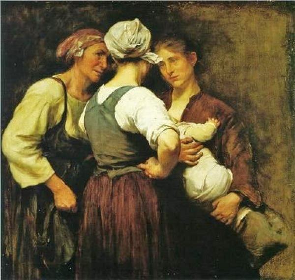 Women talk